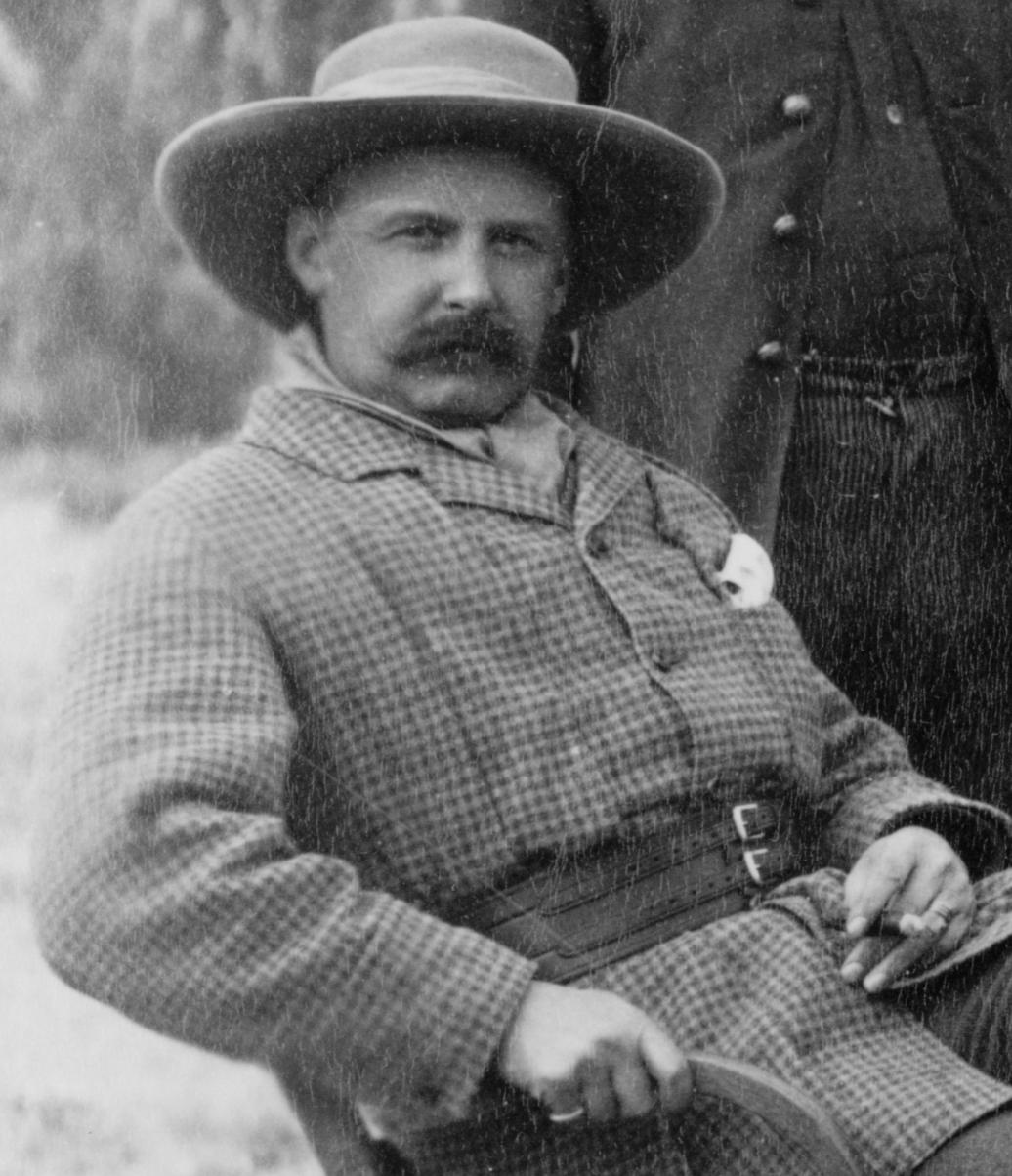 John Schuyler Crosby(September 19, 1839 – August 8, 1914), 5th Governor of Montana Territory. Cropped from File:Chester Arthur party at Yellowstone National Park.jpg